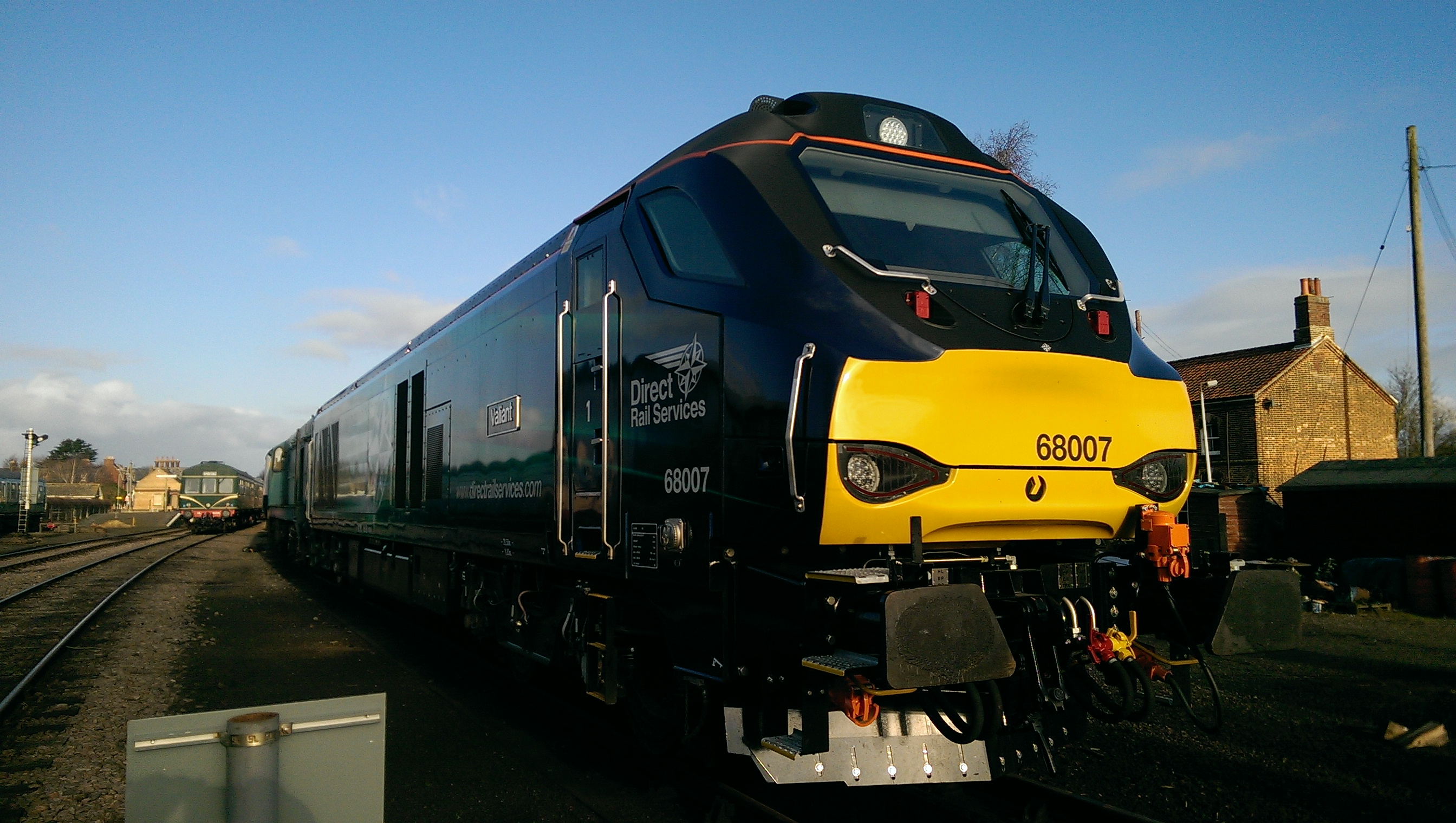 68007 at Dereham, before the first passenger trains.